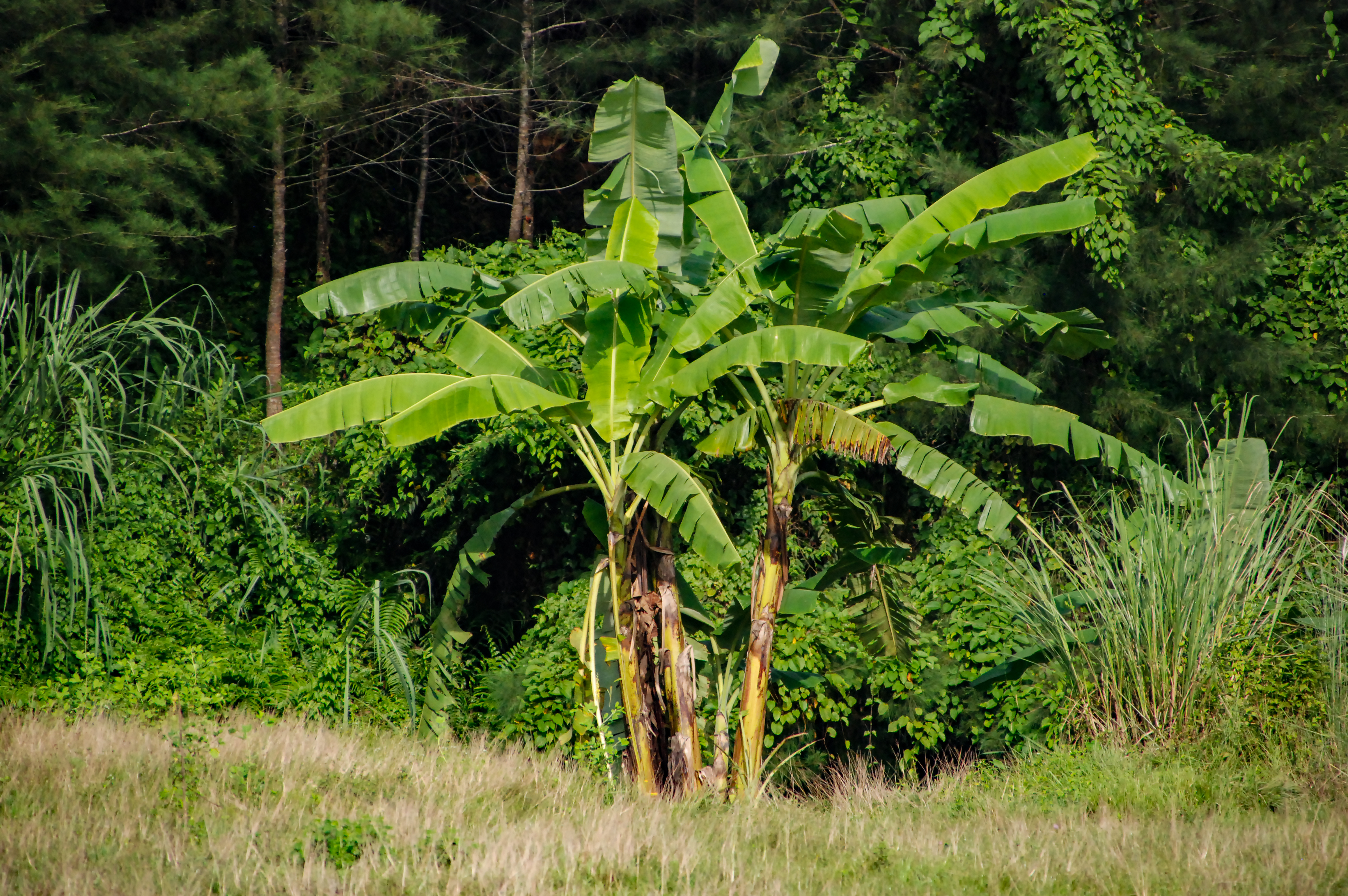 Banana trees, Mahamaya Lake